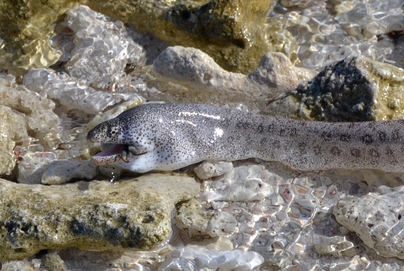 A peppered moray (Gymnothorax pictus), identifiable by the 4 dark spots around its pupil, eating a crab (Grapsus albolineatus) at low tide in Bathala (Maldives).